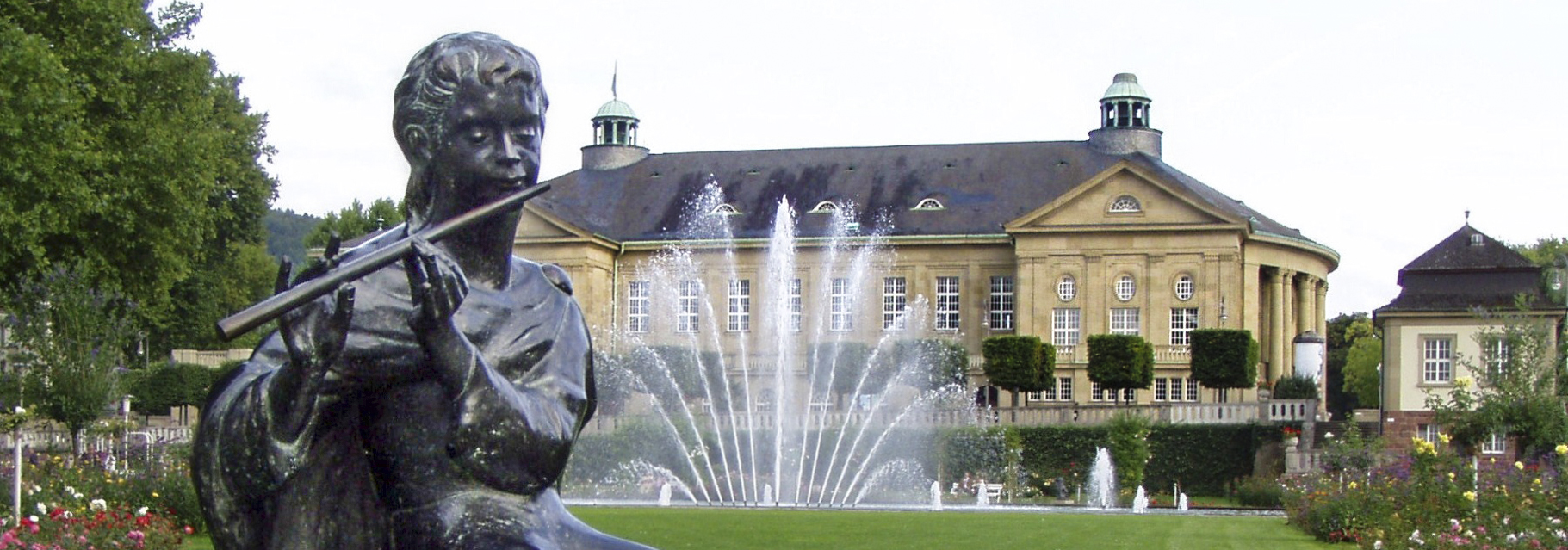 Rose Garden and Concert Hall in Bad Kissingen